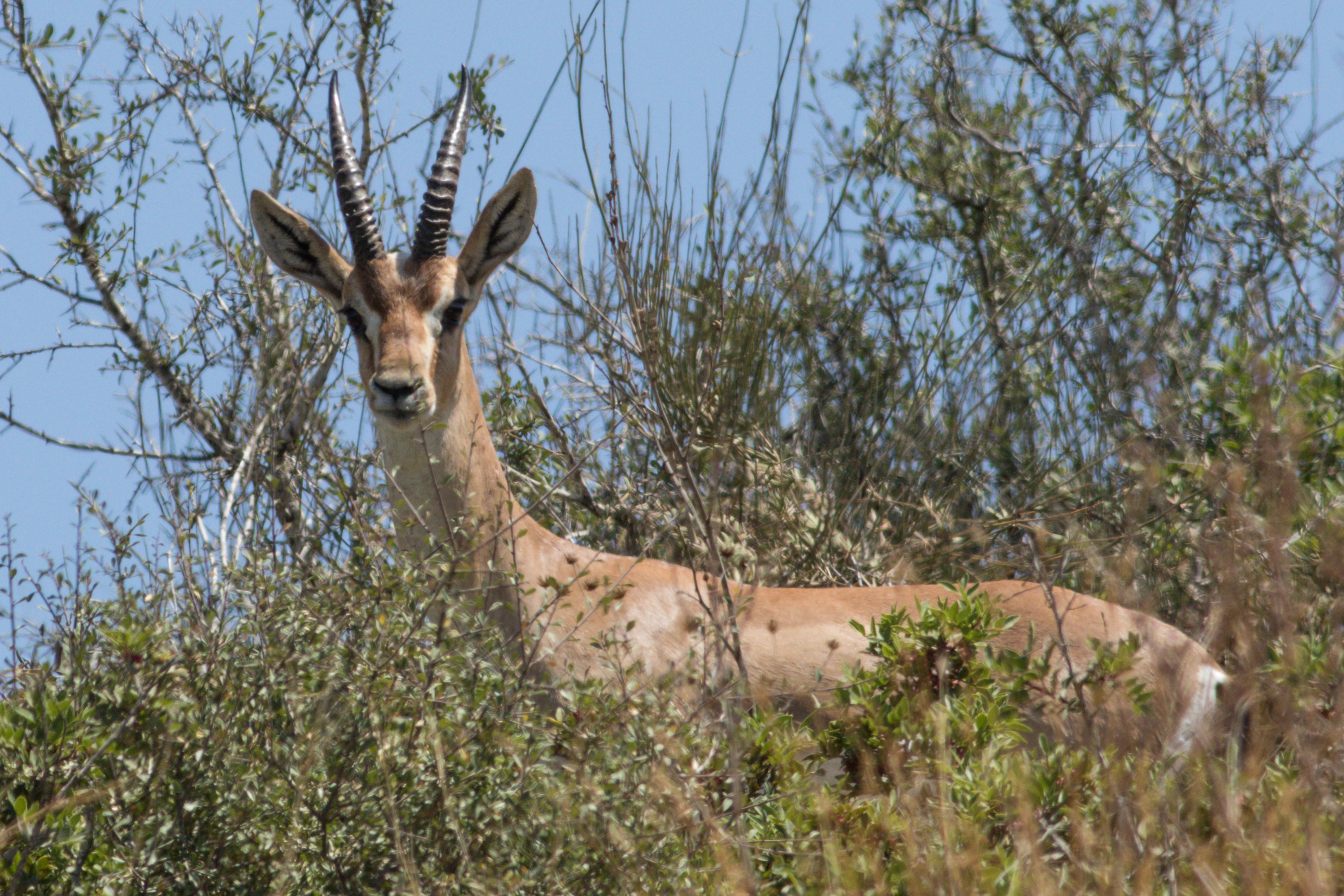 Subspecies : Gazella gazella gazella. Hevel Lakhish, Israel.